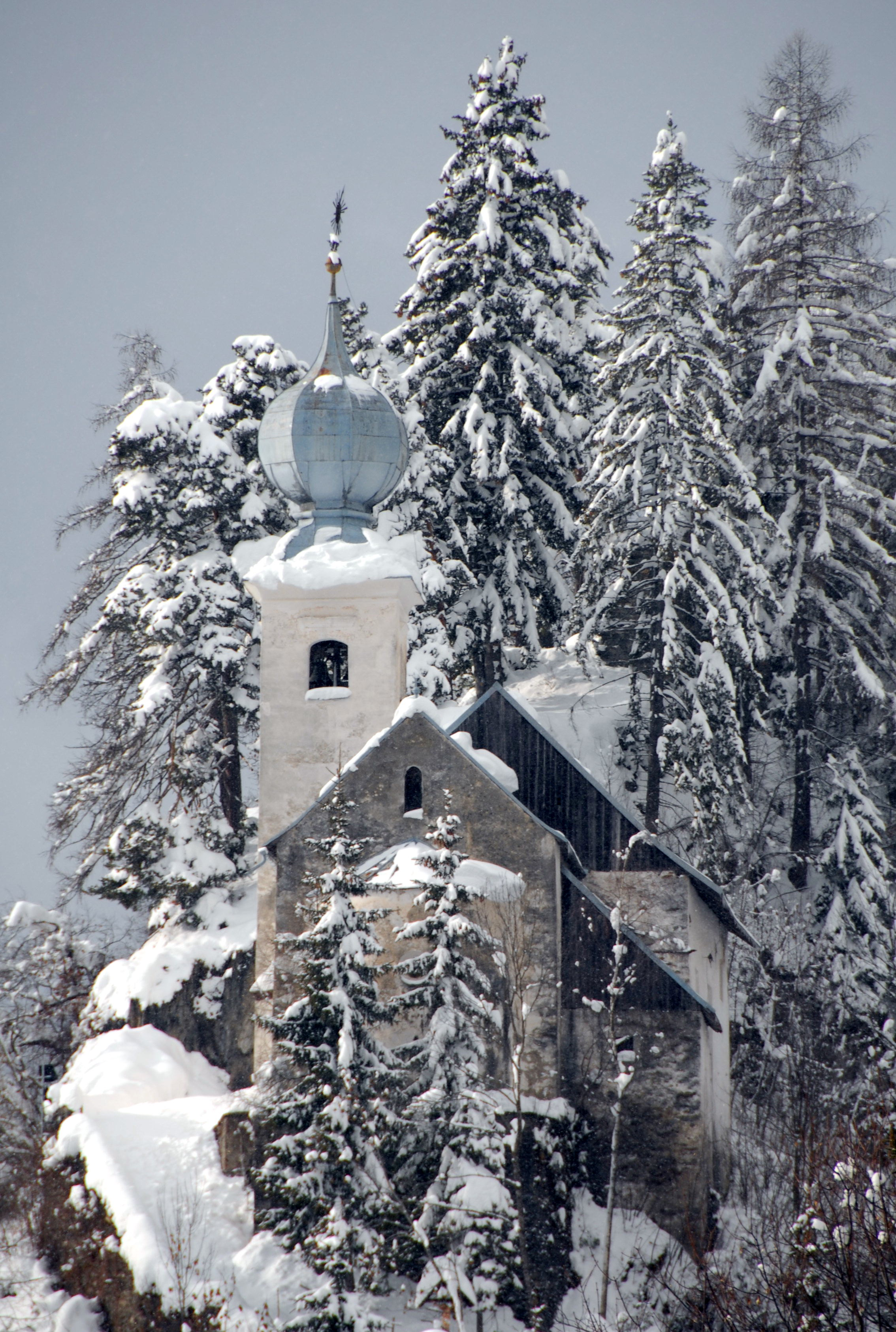 Subsidiary church Saint Mary in Hohenburg at Tröbach, municipality Lurnfeld, district Spittal an der Drau, Carinthia / Austria / EU